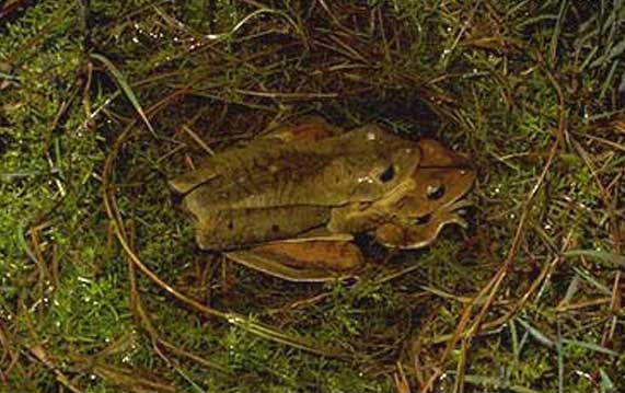 Hypsiboas faber